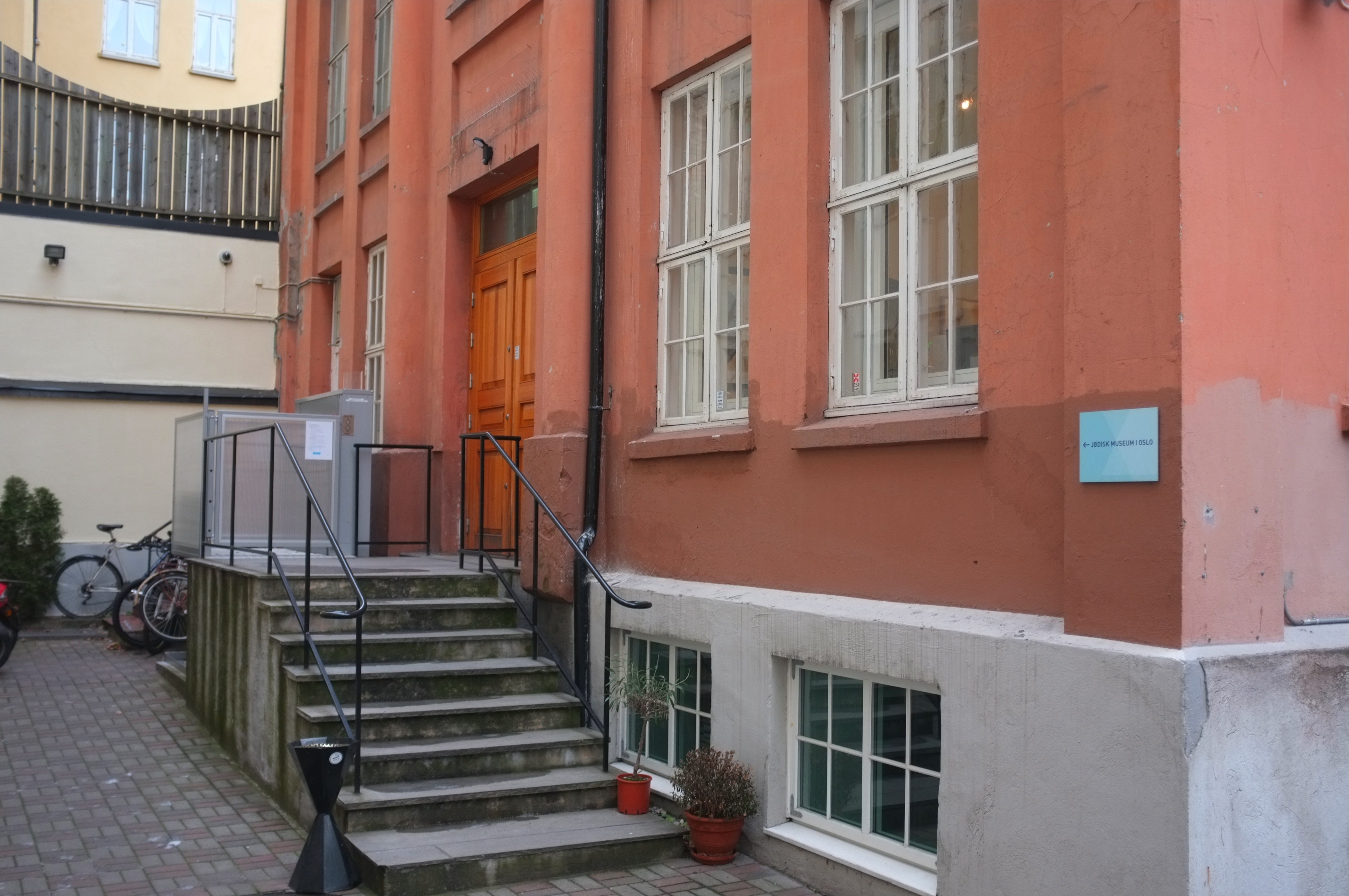 Oslo Jewish Museum